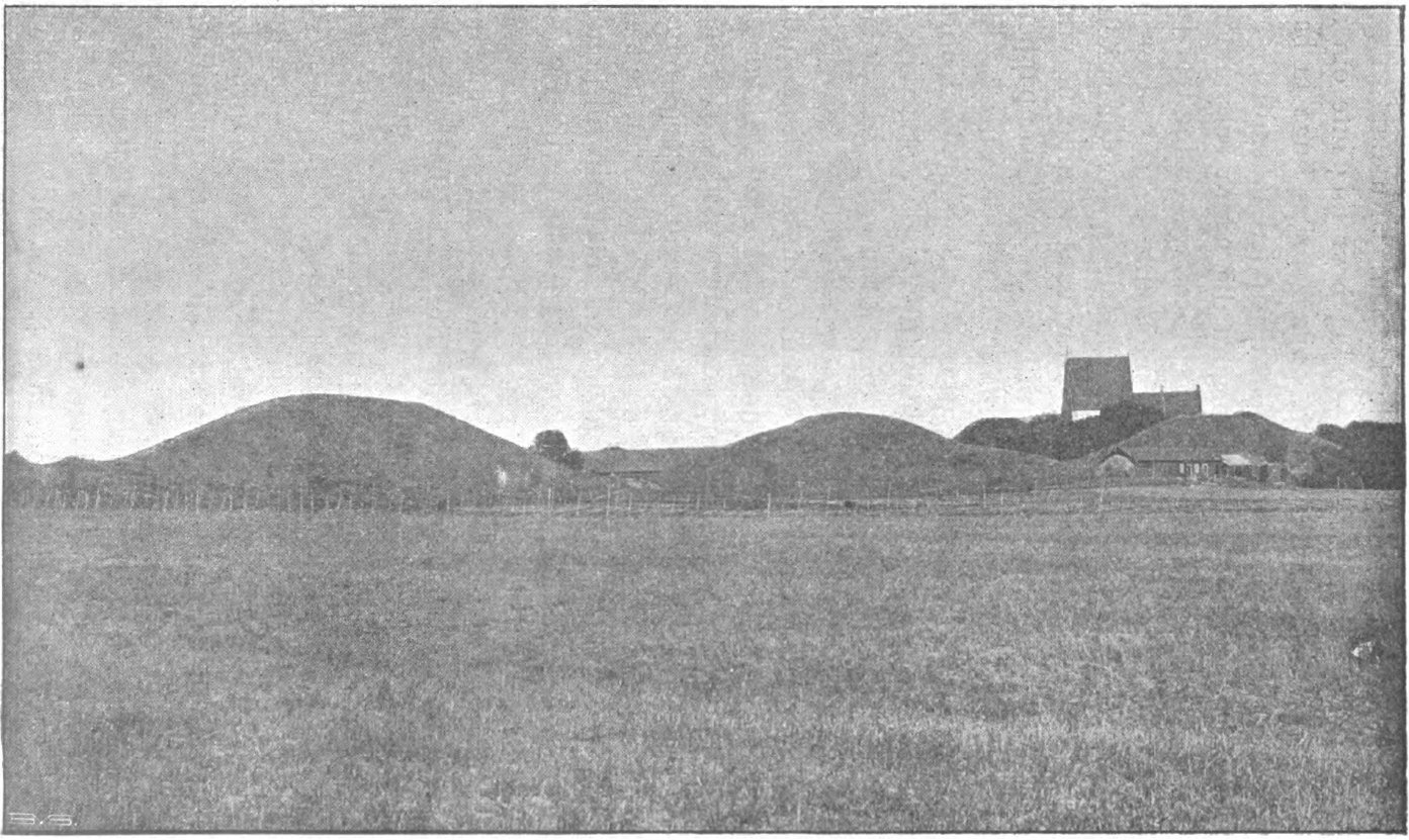 "Uppsala högar." photo by Erik E. Etzel. Illustration from Nils Holgerssons underbara resa genom Sverige by Selma Lagerlöf.